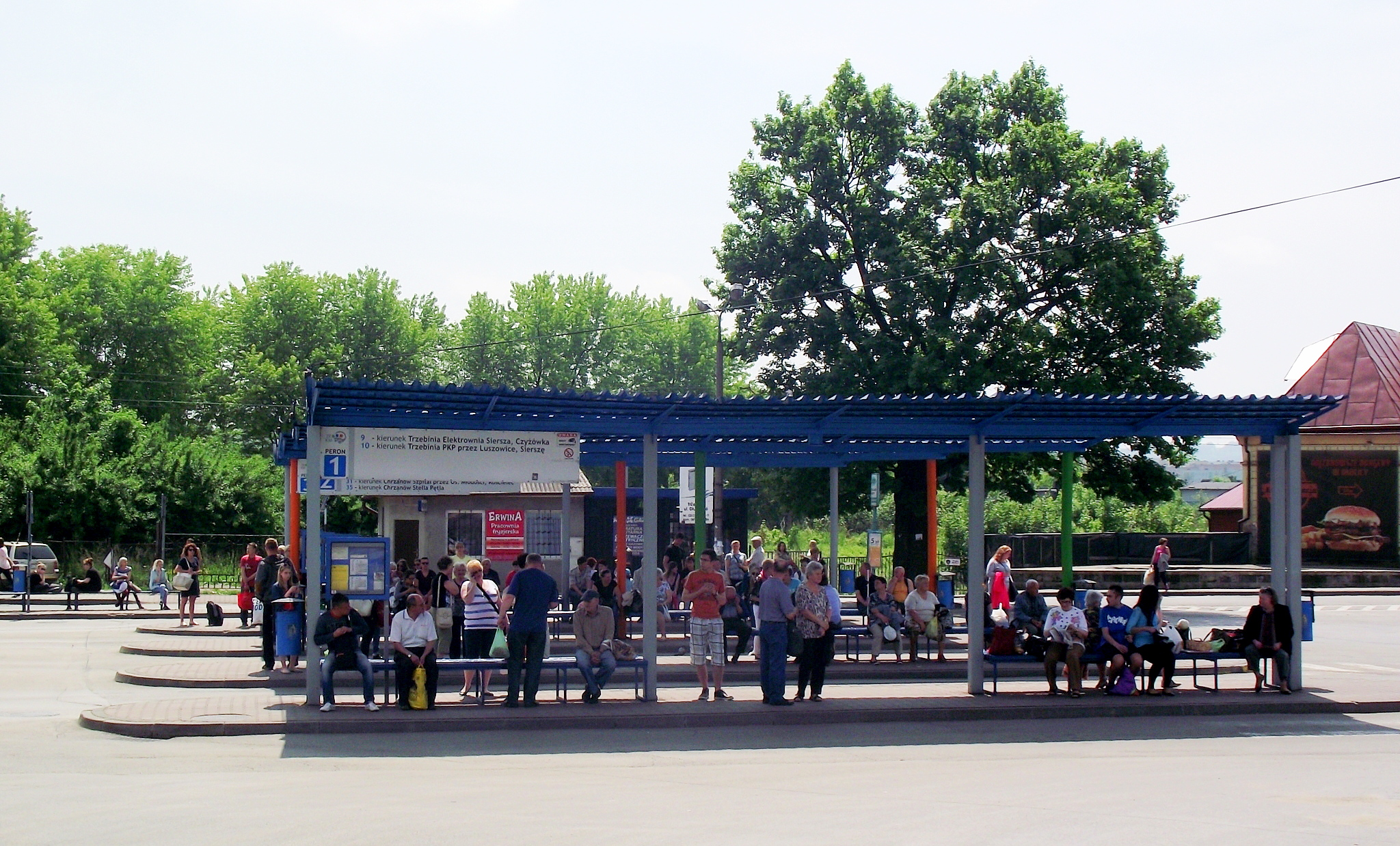 Bus station in Chrzanów, Poland.